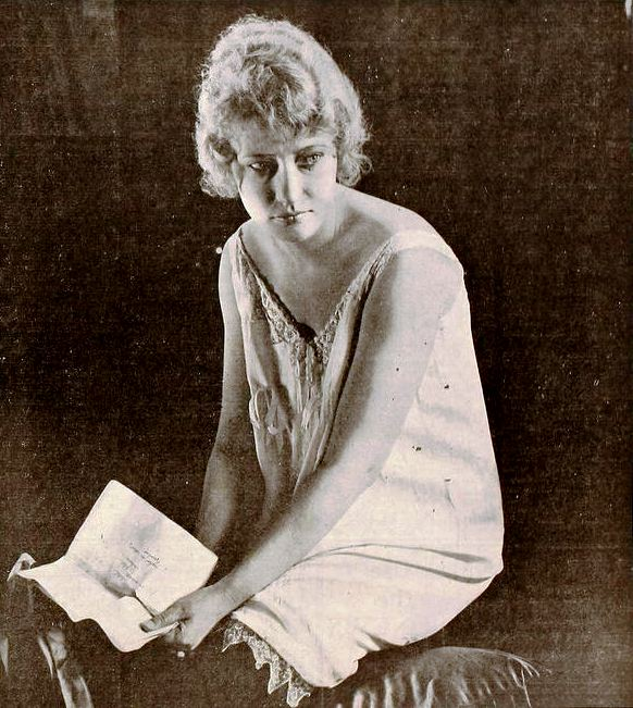 Still for the American drama film The Devil's Pass Key with Una Trevelyn, on page 4197 of the May 15, 1920 Motion Picture News.